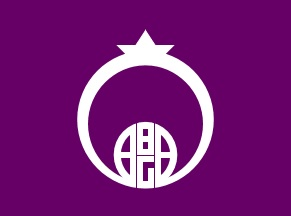 Flag of Osato Miyagi